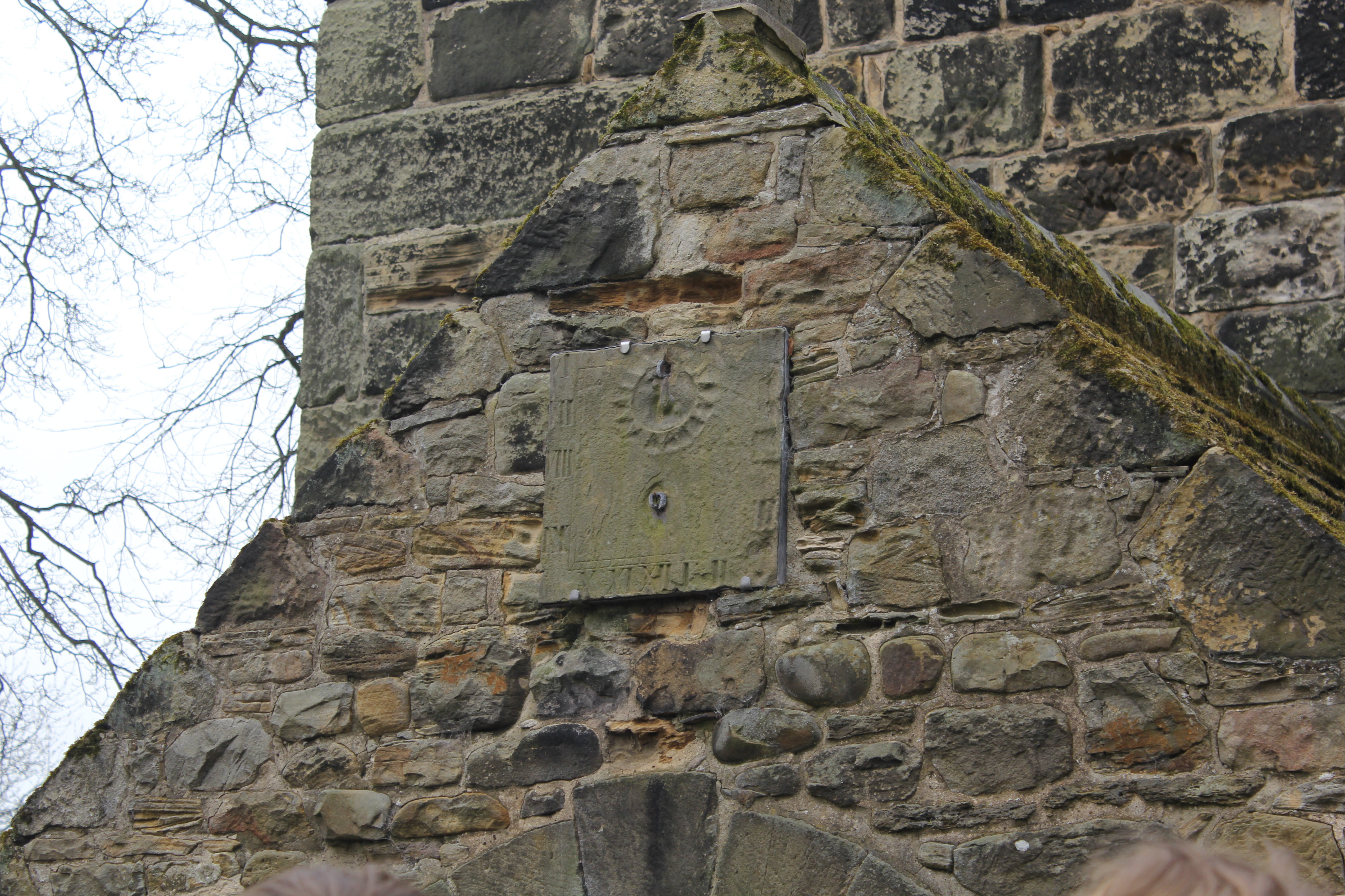 Sundial on the 14th-century south porch of the Anglo-Saxon church at Escomb, County Durham